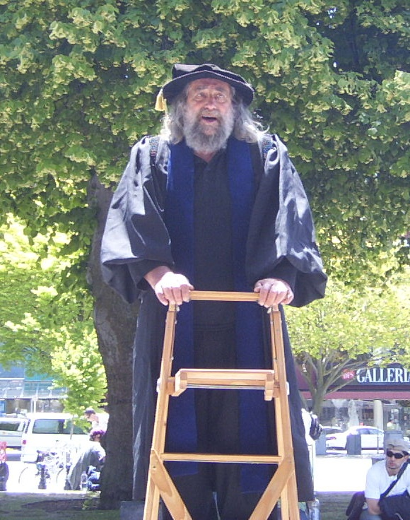 Wizard of New ZealandThe Wizard of New Zealand entertaining people in Cathedral Square in Christchurch, New ZealandChristchurch on December 19, 2006. Uploaded by the photographerThe Wizard of New Zealand entertaining people in Cathedral Square in Christchurch on December 19, 2006. Uploaded by the photographer